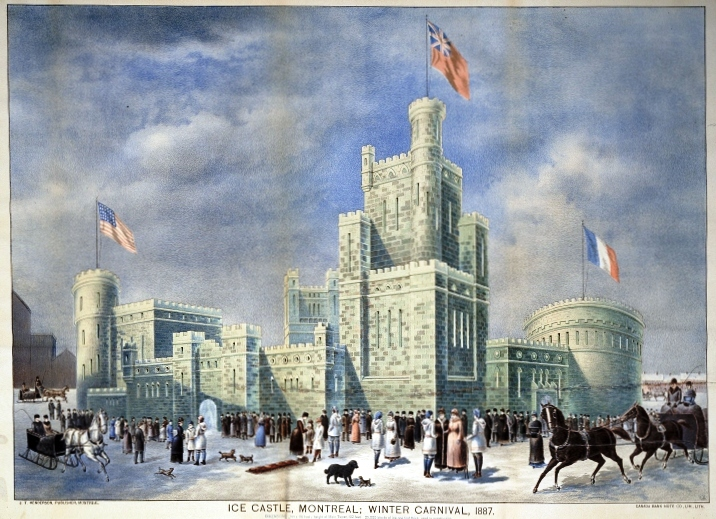 Print, Ice Castle, Montreal; Winter Carnival, 1887, Anonymous, 49.5 x 66.5 cm